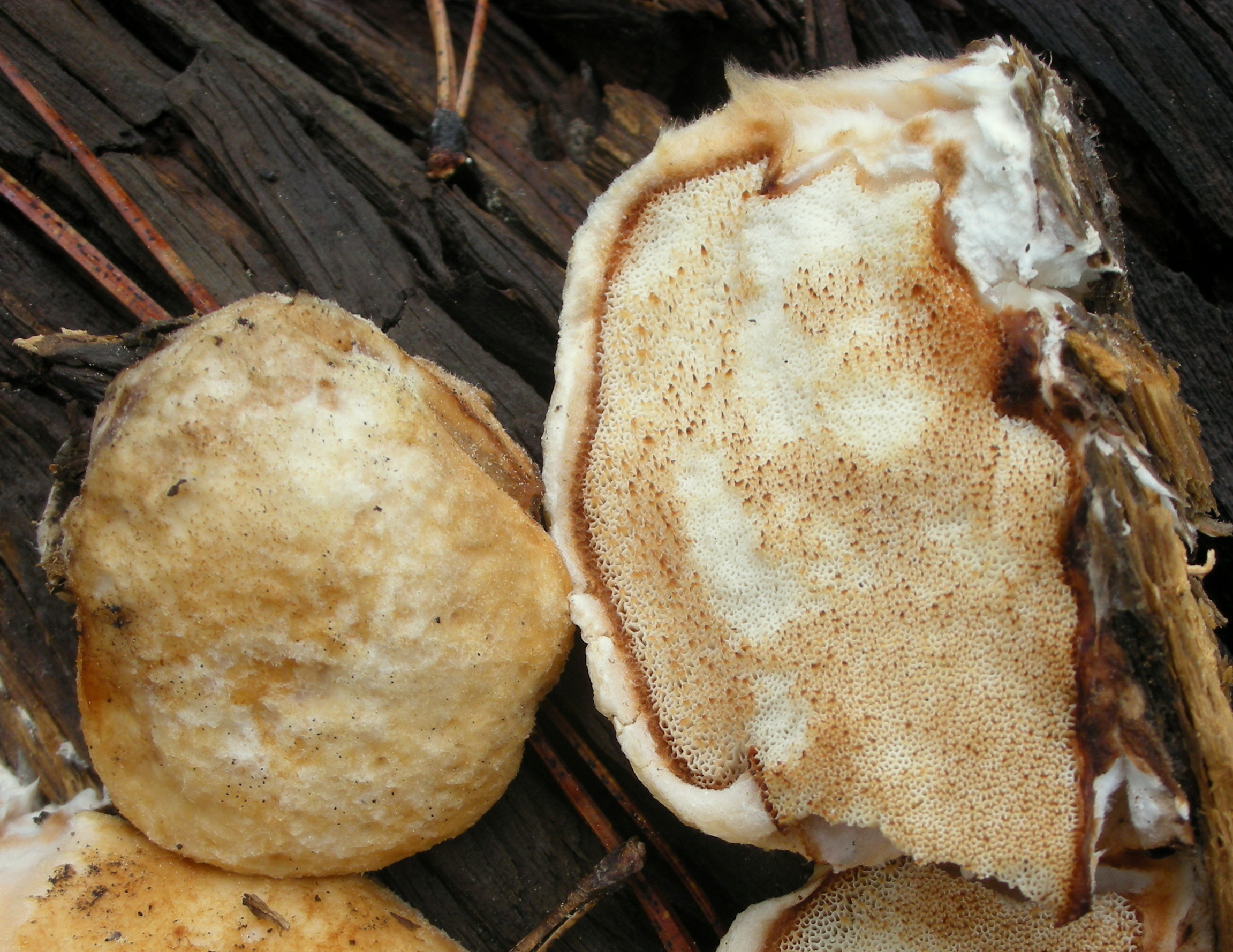 Fruit bodies of the polypore fungus Oligoporus leucospongia (Cooke & Harkn.) Gilb. & Ryvarden. Specimens from Eastern Shasta-Trinity National Forest, Siskiyou Co., California, USA. "Notes: Interesting polypore with soft upper cap and delicate pores. Spore print was white and spores were ~ 5.0 X 1.3 microns with a couple of oil droplets."